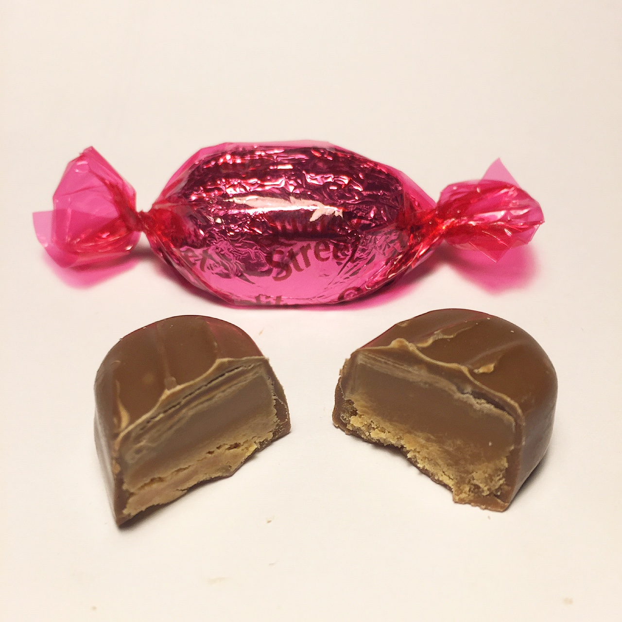 Quality Street Vanilla Fudge, Feb 2016, London UK